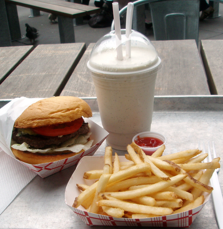 Blue cheese burger with skin-on fries and a vanilla milkshake. The burger was so-so, but the milkshake alone was worth the walk along Market St. (San Francisco)